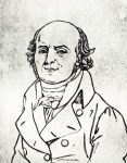 Démétrius Stephanopoli de Comnène (1749-1821), Corsican aristocrat of Greek origin